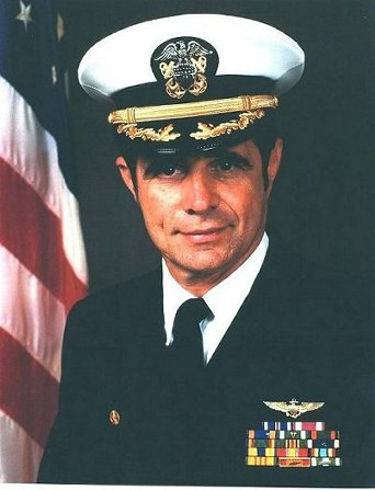 US Navy: "Cdr. Henry M. "Hank" Kleemann on 19 August 1981, flying VF-41 F-14 Tomcat (AJ 102 BuNo. 160403) with his RIO Lt. David "DJ" Venlet, shot down a Libyan Su-22 over the Gulf of Sidra.